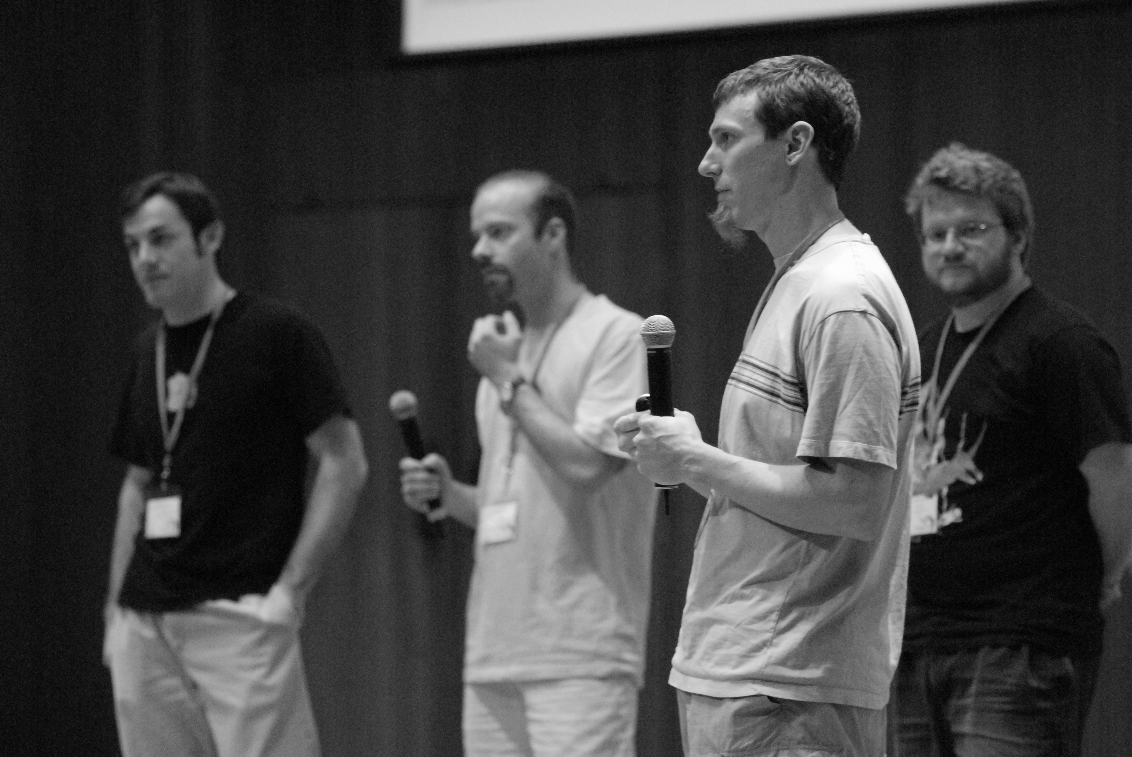 Zach Amsden, Rusty Russell, Jeremy Fitzhardidge and Chris Wright.